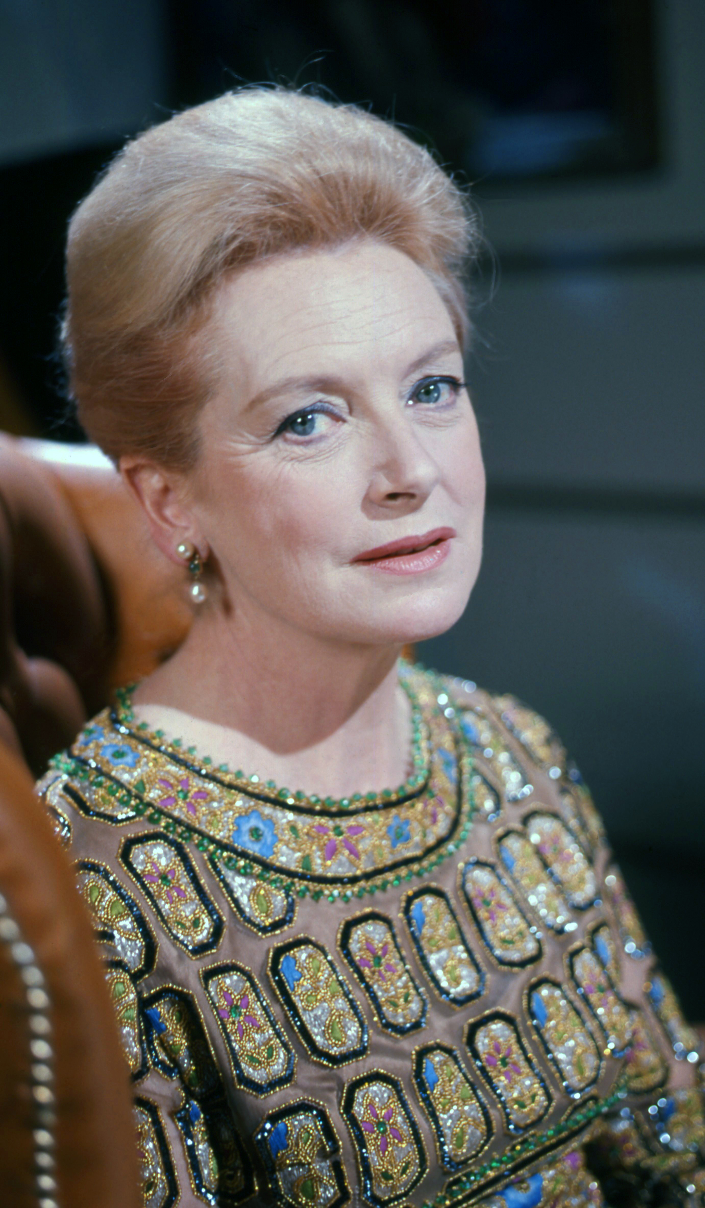 Deborah Kerr in London